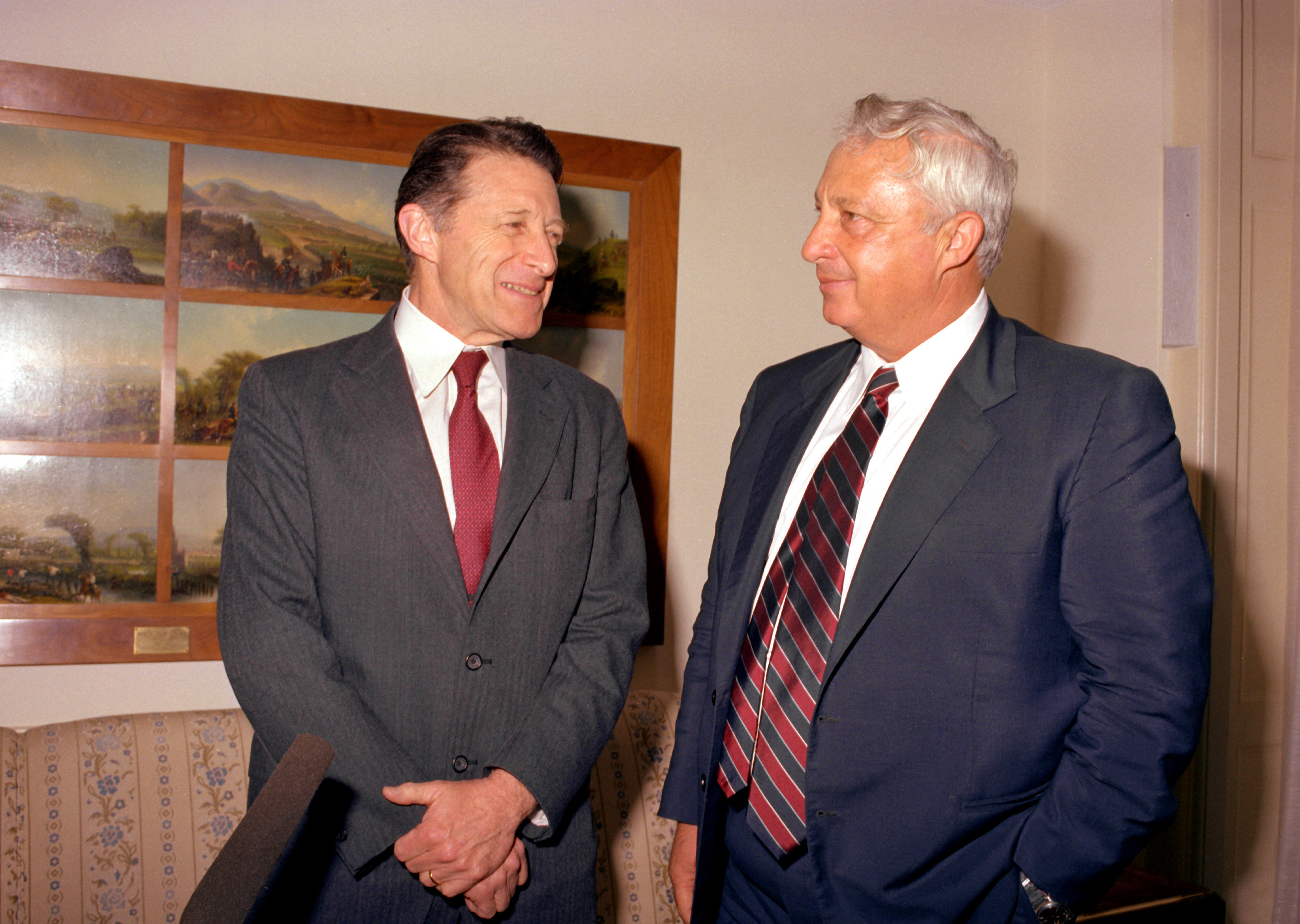 Secretary of Defense Caspar W. Weinberger meets with Minister of Defense Ariel Sharon of Israel in his office in the Pentagon, Room 3E880